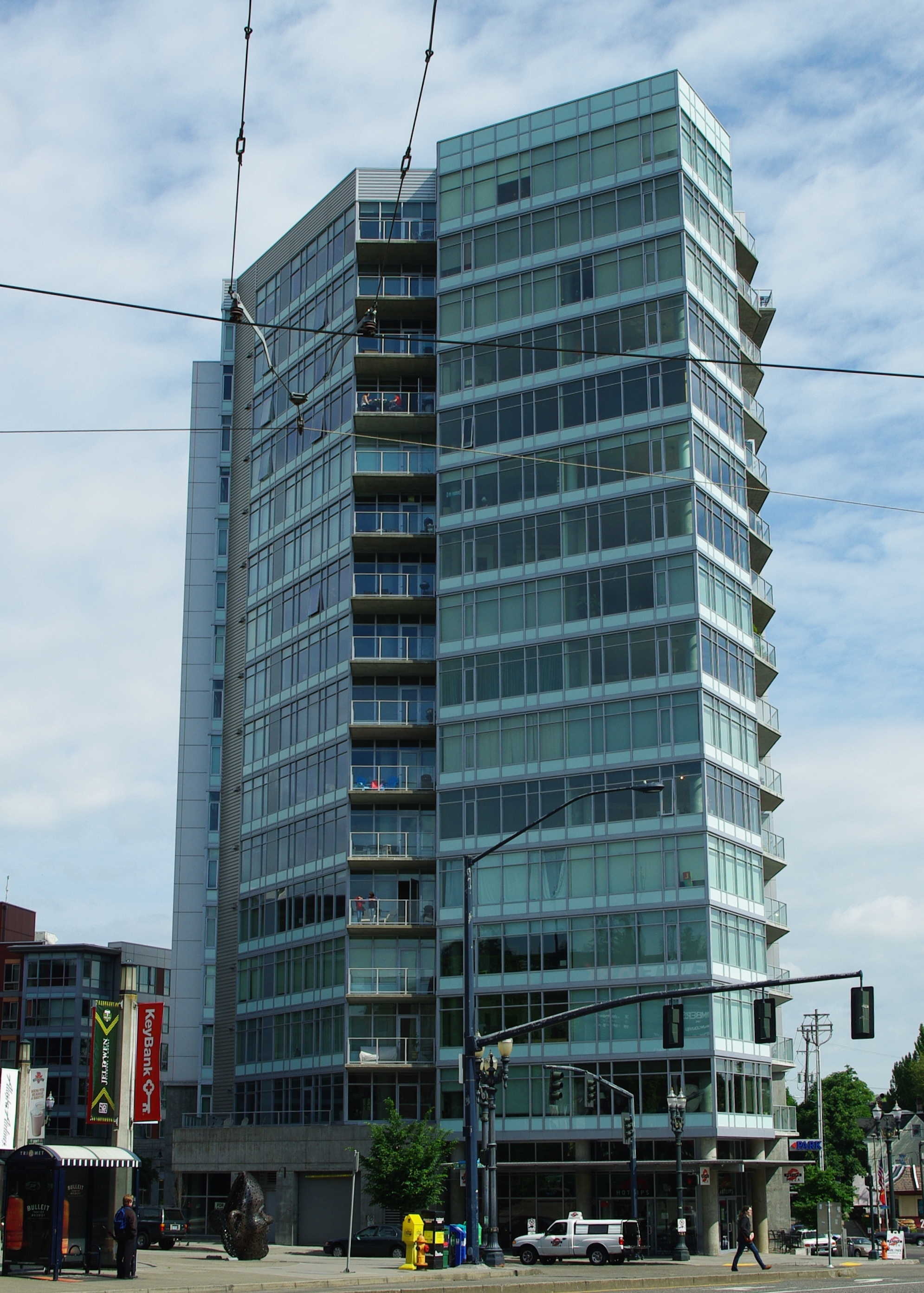 The Civic condominium tower at SW 19th and Burnside in Portland, Oregon.